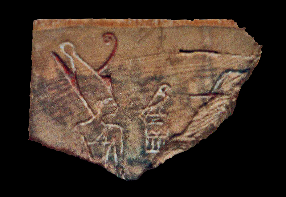 Fragment of an ivory label showing pharaoh Den, wearing the double crown of Upper and Lower Egypt. Originally from Abydos, Umm el Qaab, tomb T (Tomb of Horus Den). Now in the Egyptian Museum. Undoubtedly this representation of Horus Den marks an advance in regard to the iconography of the double crown. Remains of the original color, used for painting the label, still visible on top of the white crown and sides of the red crown. bibliography: Petrie, W.M.Flinders. 1901. The royal tombs of the first dynasty. Part II, p.21, pl. X.13; XIV.7-7a.